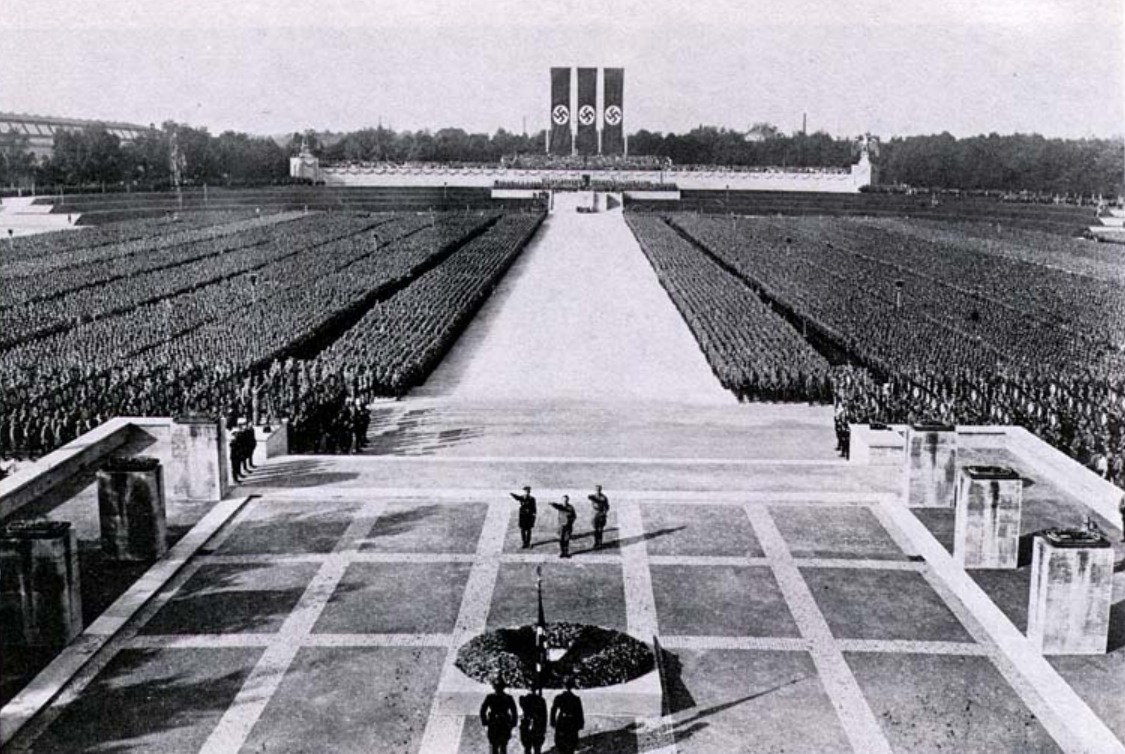 Nazi party rally grounds